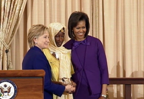 Mar. 11, 2009: Secretary of State Hillary Rodham Clinton hosted the 3rd annual International Women of Courage Awards ceremony with guest speaker First Lady Michelle Obama in the Ben Franklin Room at the State Department.